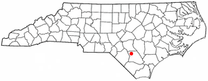 Category:North Carolina Dot Maps